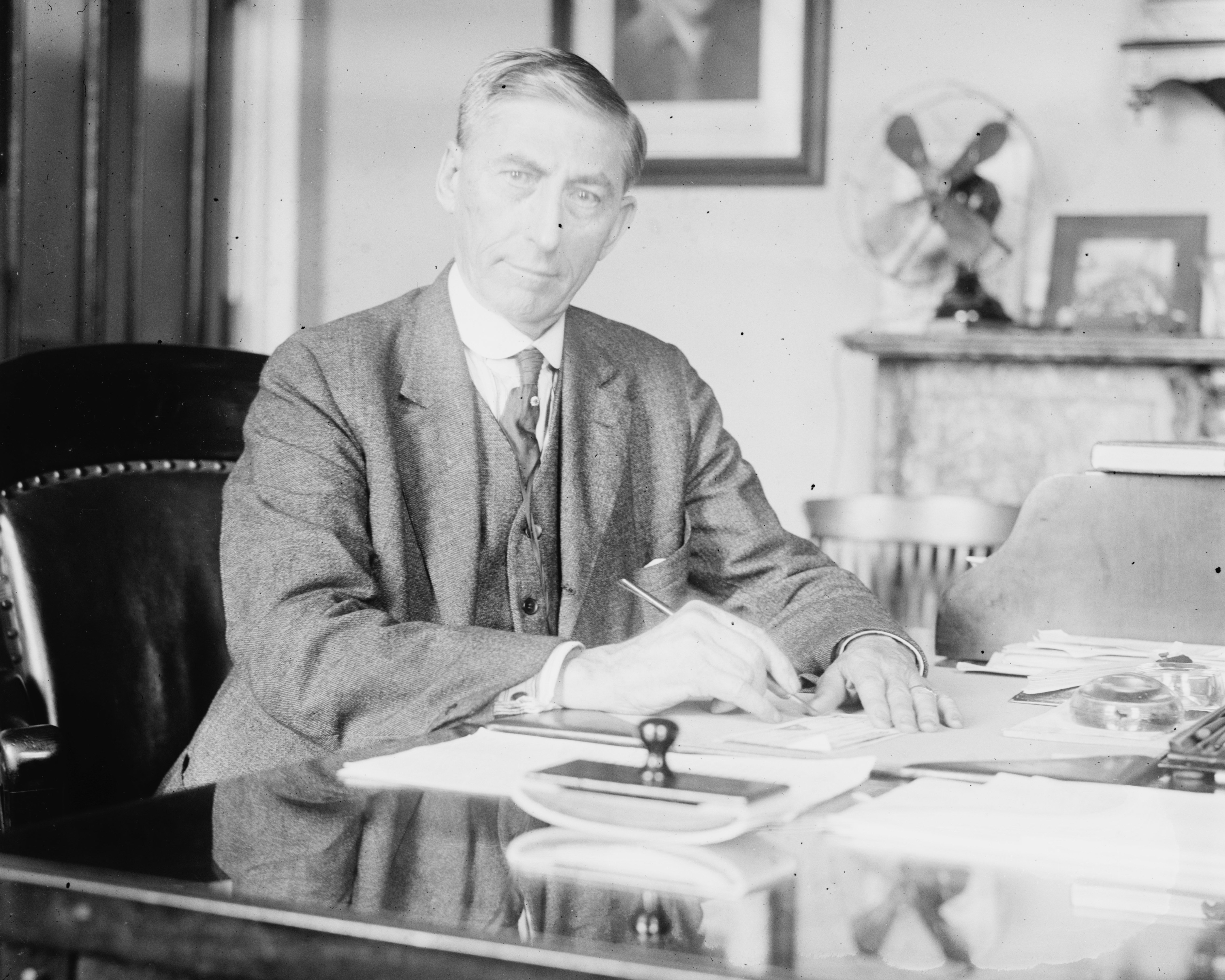 Title: John Burke, Treasurer of U.S. Abstract/medium: 1 negative : glass ; 4 x 5 in. or smaller